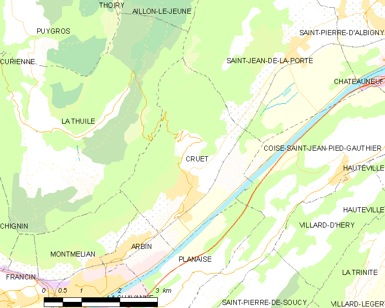 Map of French municipality